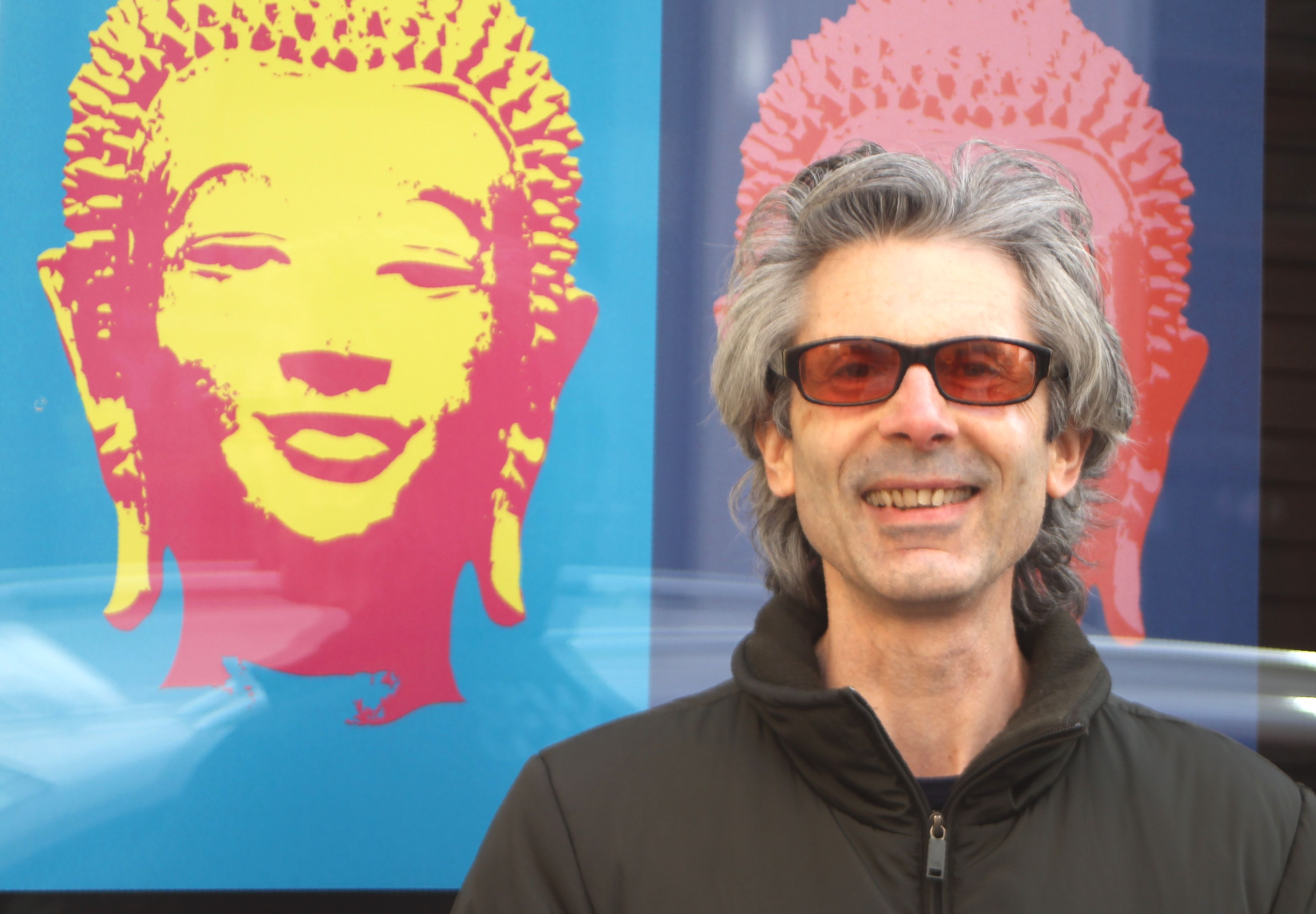 Photo was taken during the walk through old Prague, the day after Mark's lecture, organized by Maitrea.